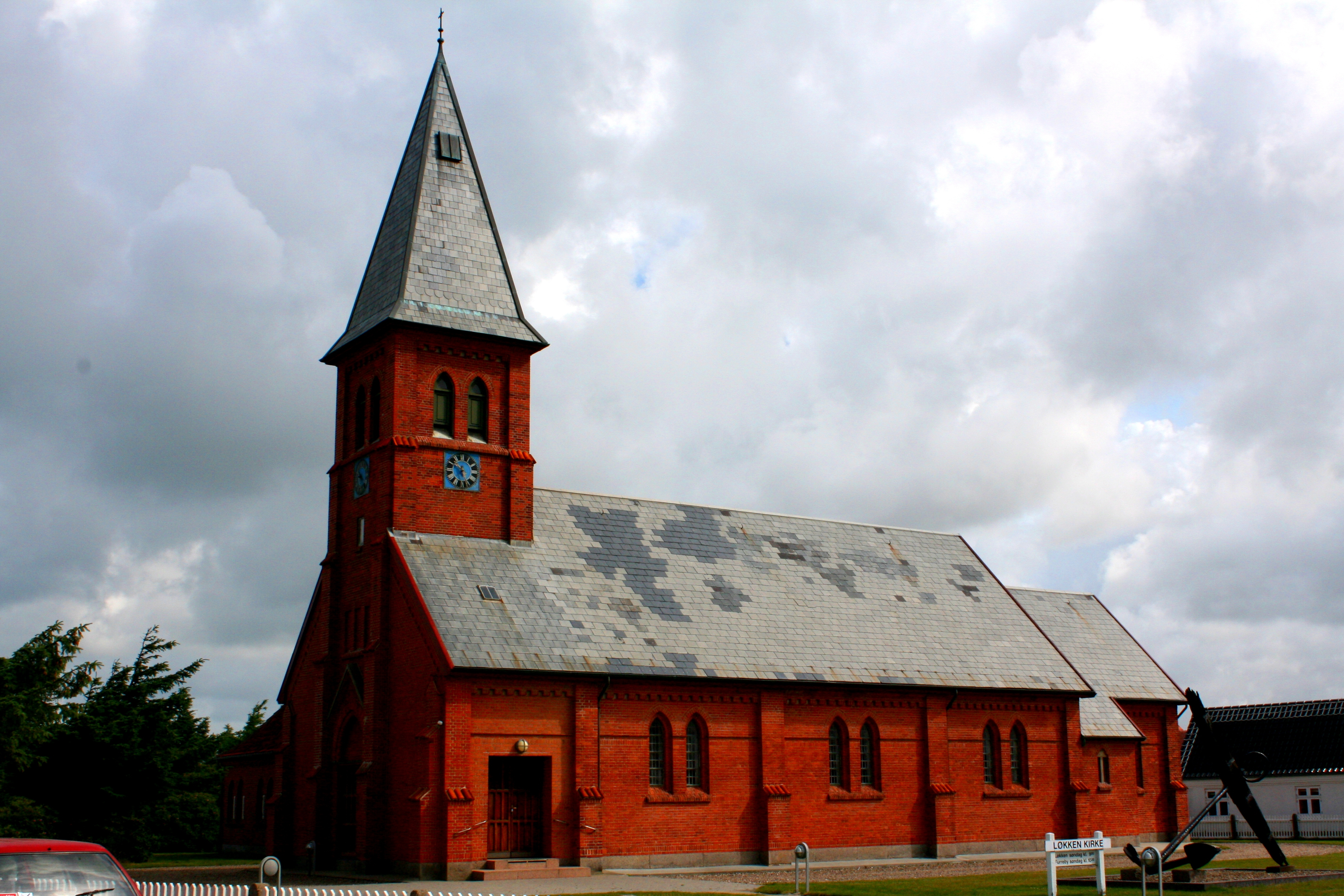 Church in Løkken, Northern Jutland, Denmark